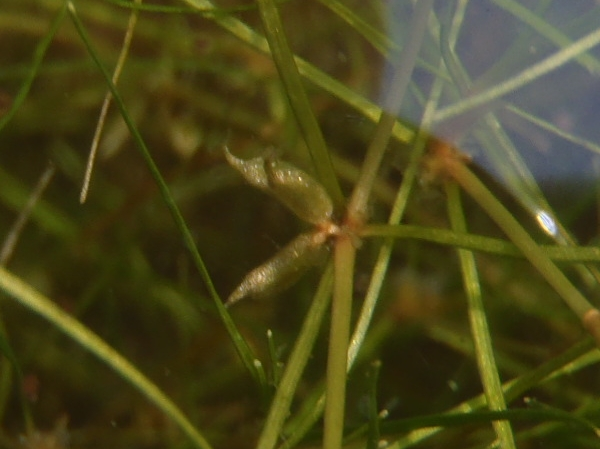 Yu Ito (2012) Aquatic plant surveys in northern Europe. Bulletin of Water Plant Society, Japan 98: 45-50.